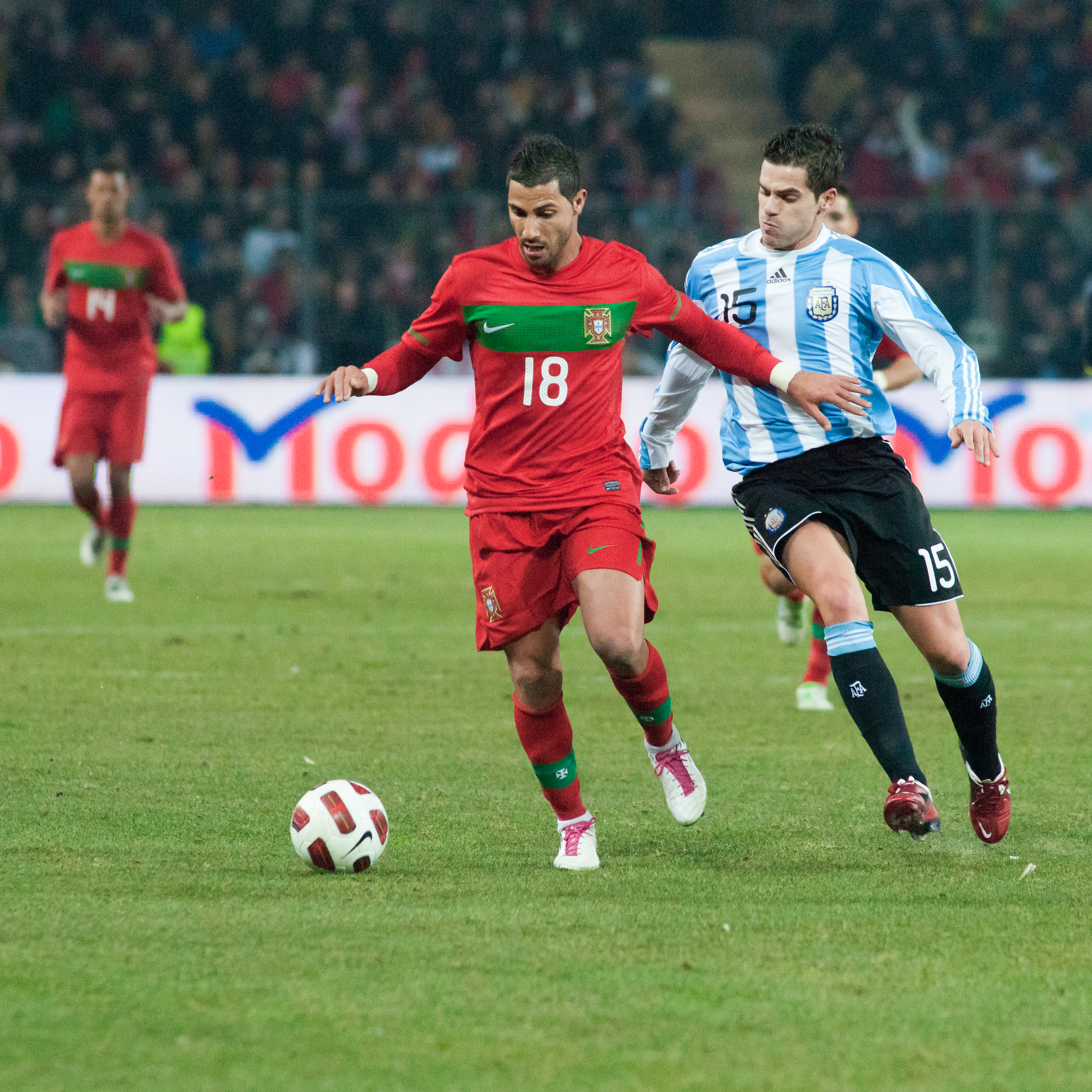 The making of this document was supported by Wikimedia CH. (Submit your project!) For all the files concerned, please see the category Supported by Wikimedia CH. Portugal vs. Argentina, 9th February 2011